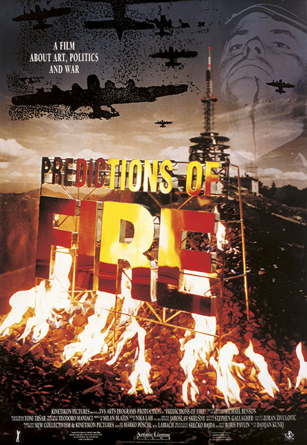 Predictions of Fire Film Poster of Michael Benson documentary